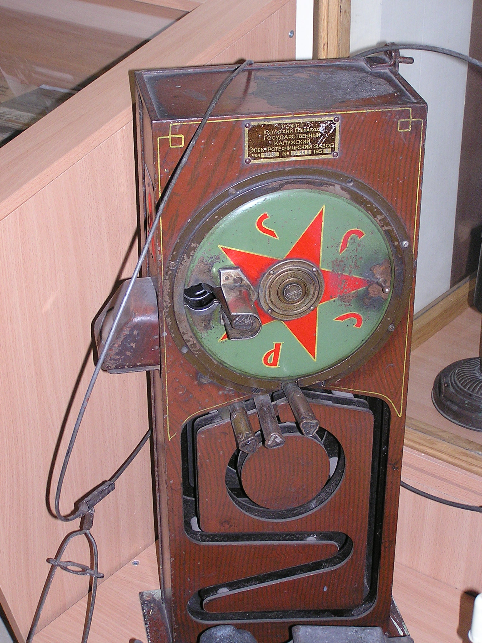 Donetsk Railroad History and Development Museum in Donetsk, Ukraine. Treger's token instrument.